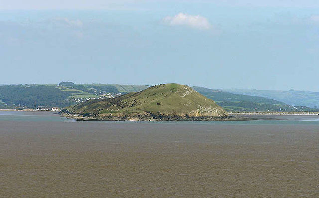 Brean Down from Steepholm.